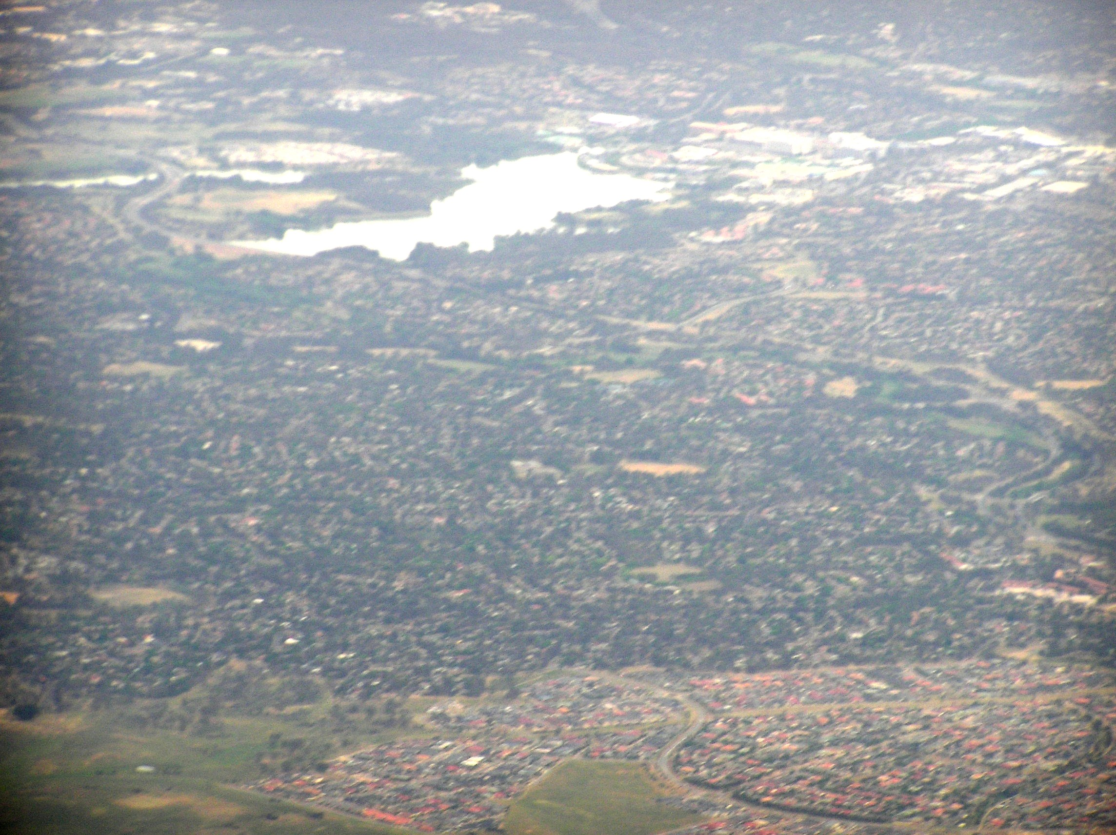 Dunlop Charnwood and Flynn with Lake Ginninderra in background